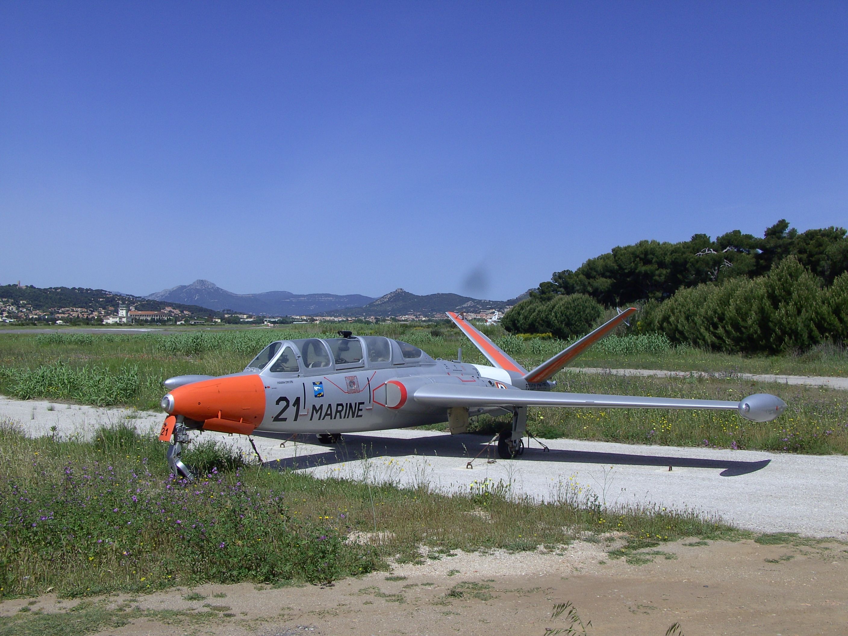 Fouga CM.175 Zéphyr carrier-capable jet trainer aircraft of the French Naval Aviation force, at Toulon-Hyères Airport, May 2012.